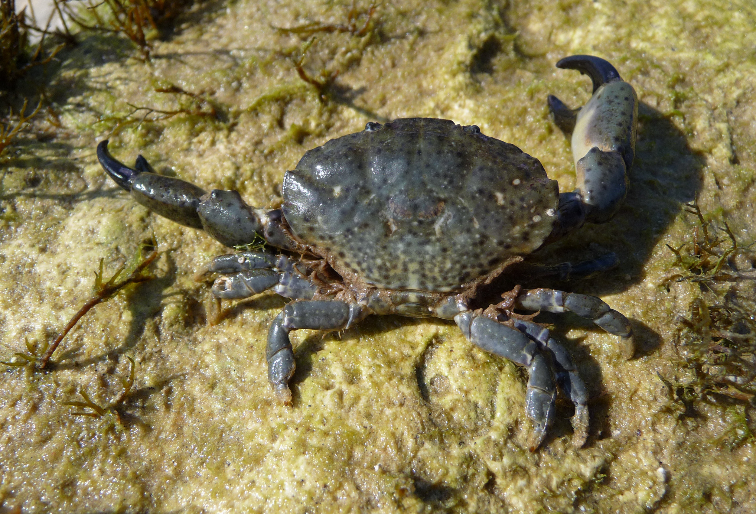 Jaguar round crab. The Black sea.